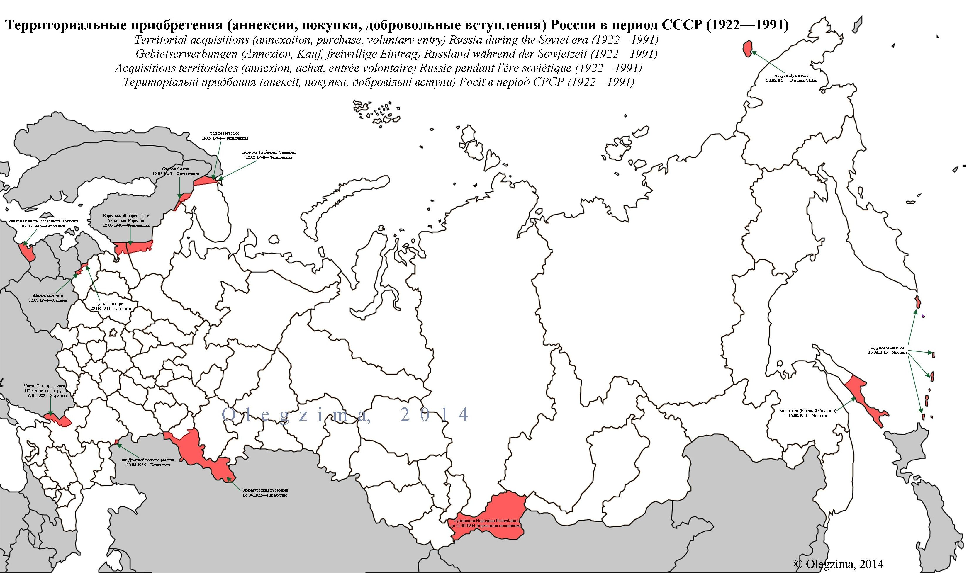 Territorial acquisitions (annexation, purchase, voluntary entry) Russia during the Soviet era (1922—1991)